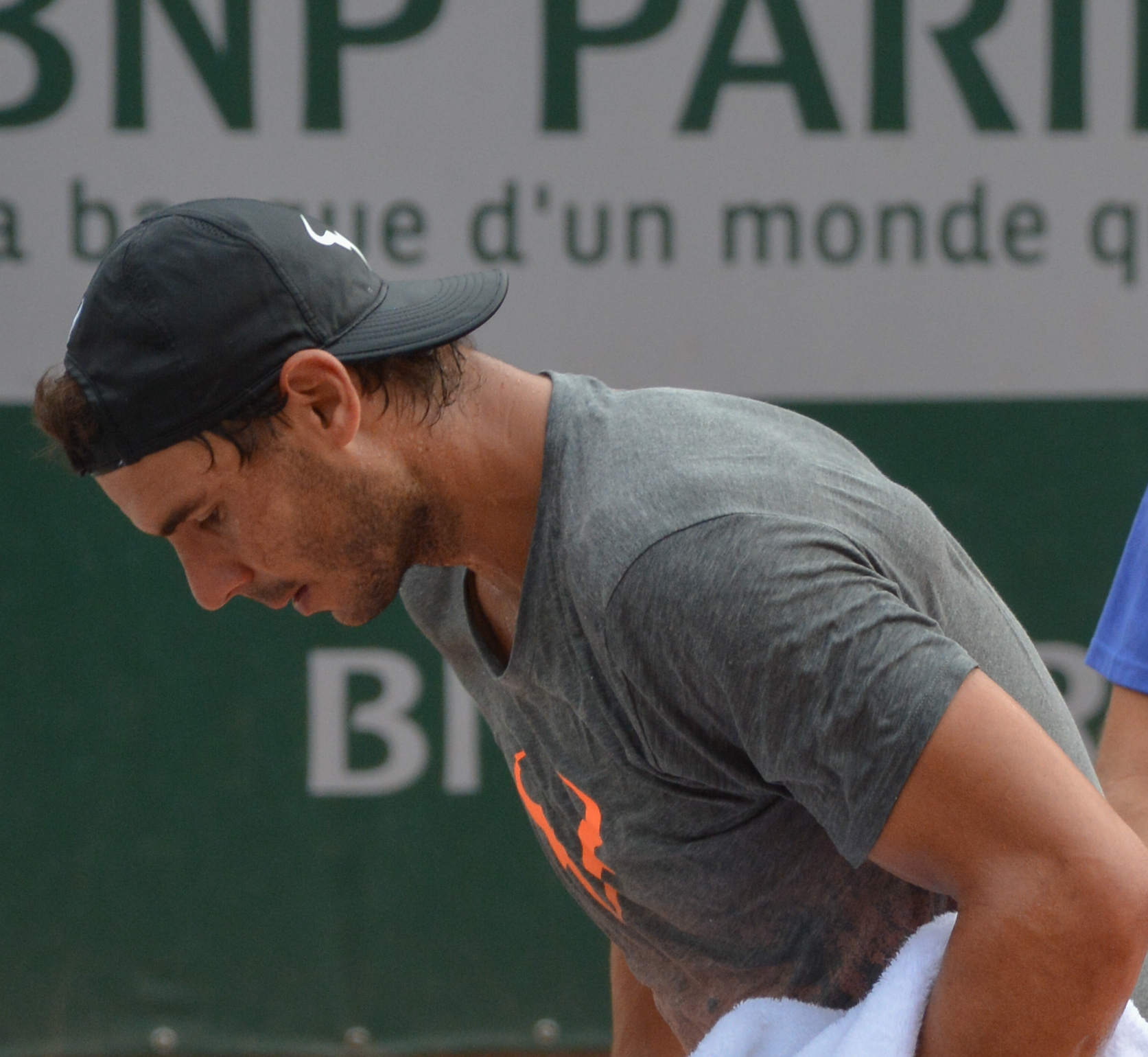 Nadal at the 2017 French Open